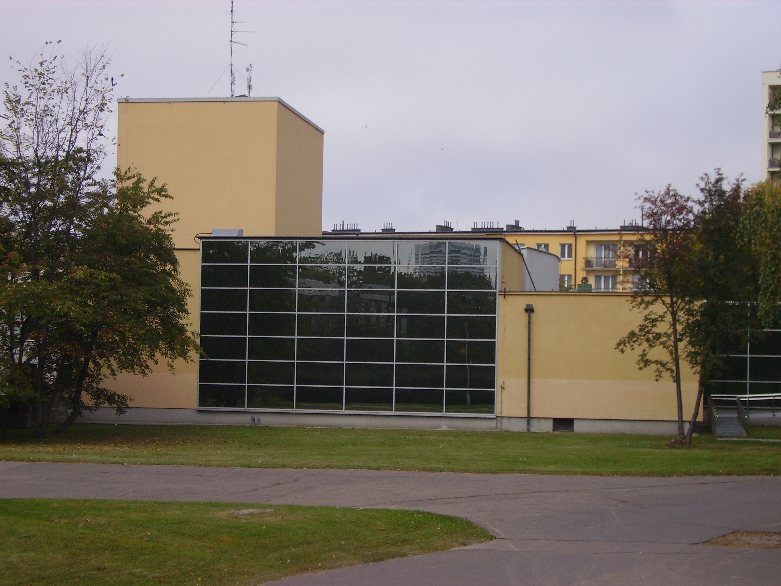 Puppet Theatre in Białystok, Kalinowskiego 1, street